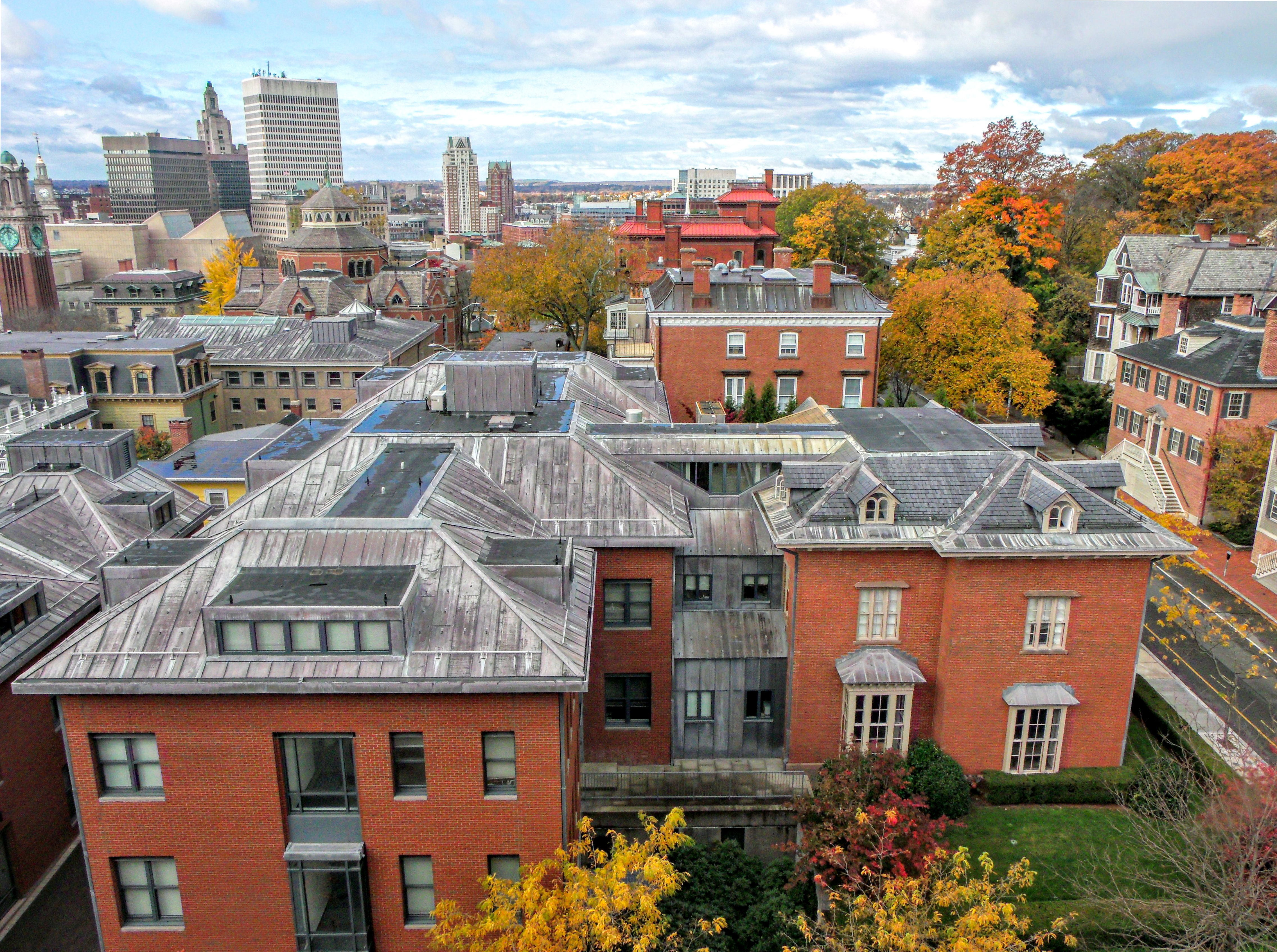 Autumn view over Brown University, Providence, RI